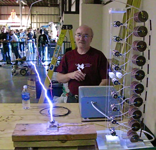 A homemade Marx generator produces six hundred thousand volts from 6 C cell batteries. The Marx generator (right) consists of ten round capacitors which are charged in parallel to a high voltage and then connected in series by nine spark gap switches (left of capacitors). At this brief moment of discharge, all nine of the metal ball spark gaps in the middle tower spark simultaneously, connecting the capacitors in series, generating a high voltage which creates the long spark at left. The light of the spark gaps firing is faintly visible reflected from the supporting equipment.